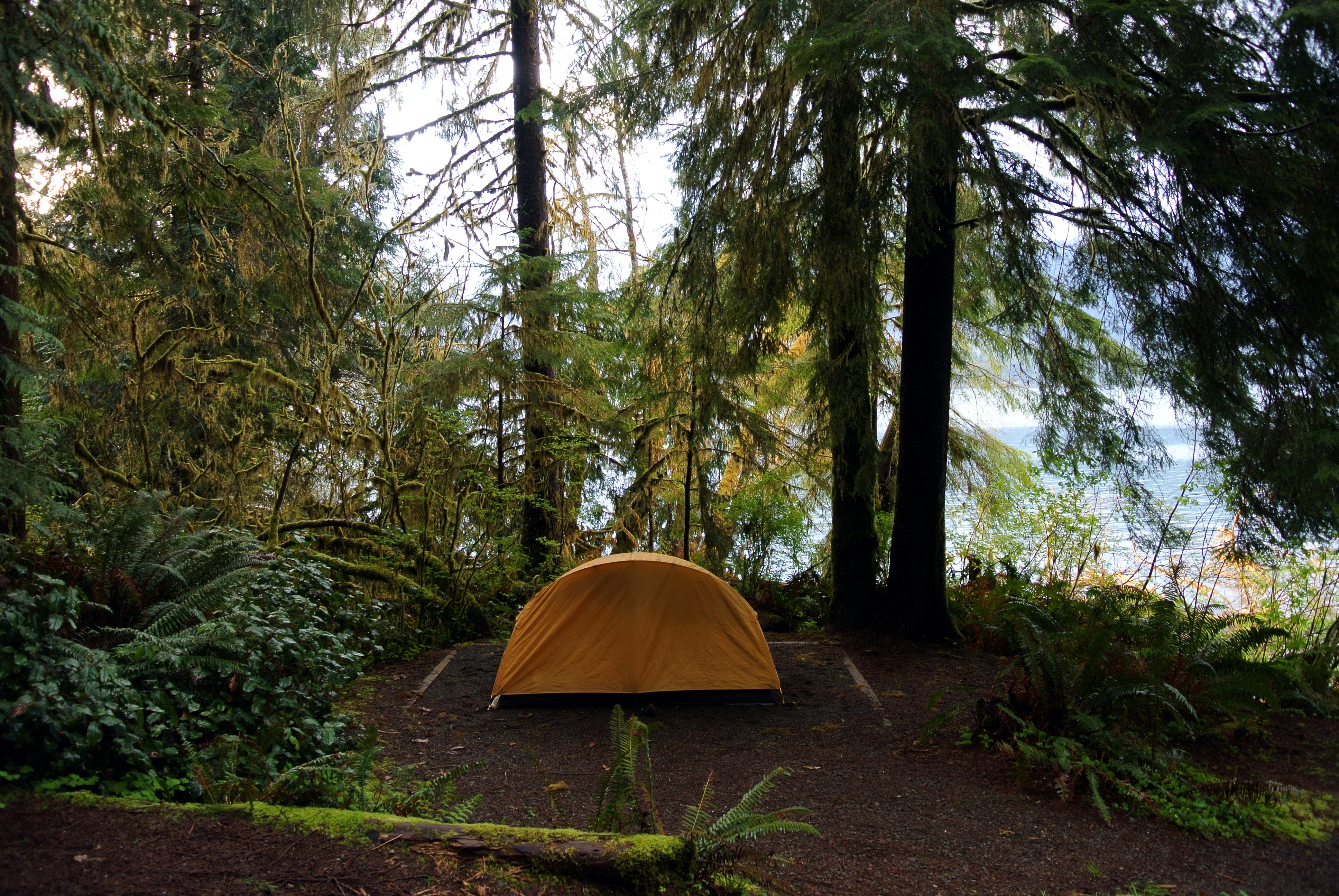 Camping site on the shores of Lake Quinault, Olympic National Park.